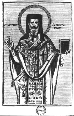 Saint DIonysius of Zante (1547-1622): Saint of the Orthodox Church